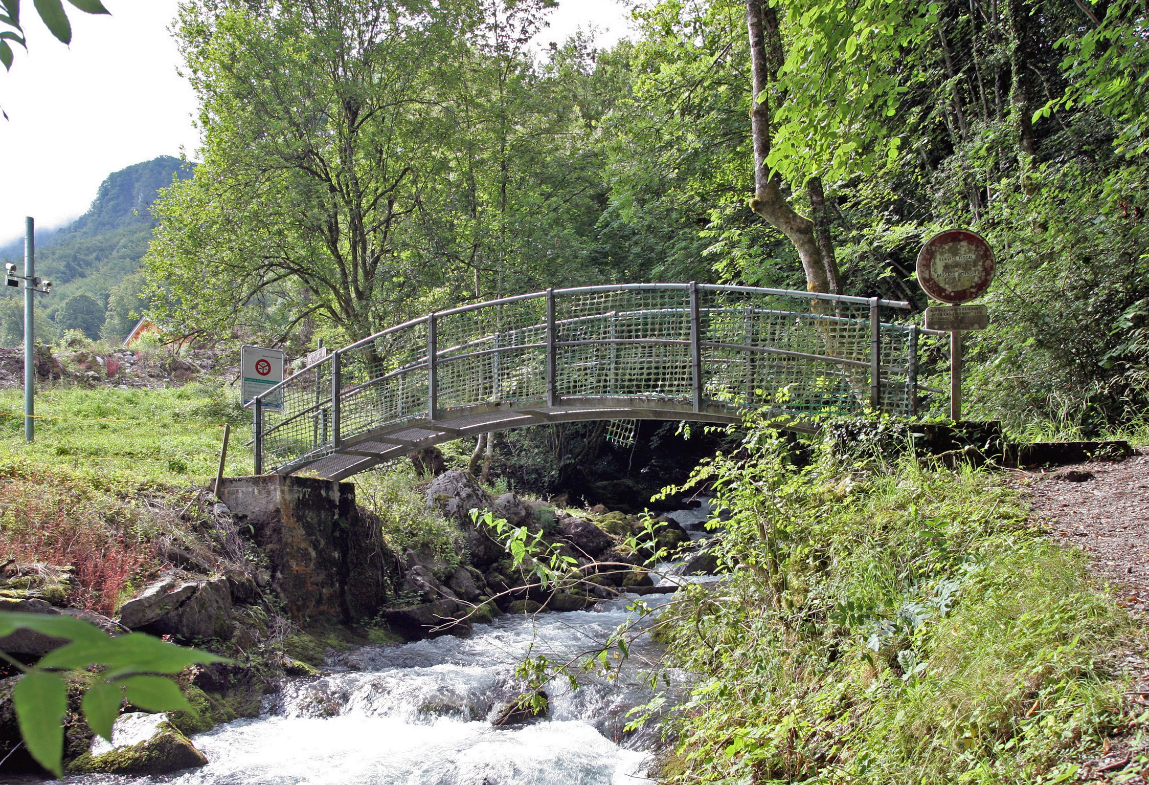 The green line in Saint Gingolph.